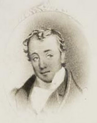 19th Century Australian politician and explorer Joseph Gellibrand